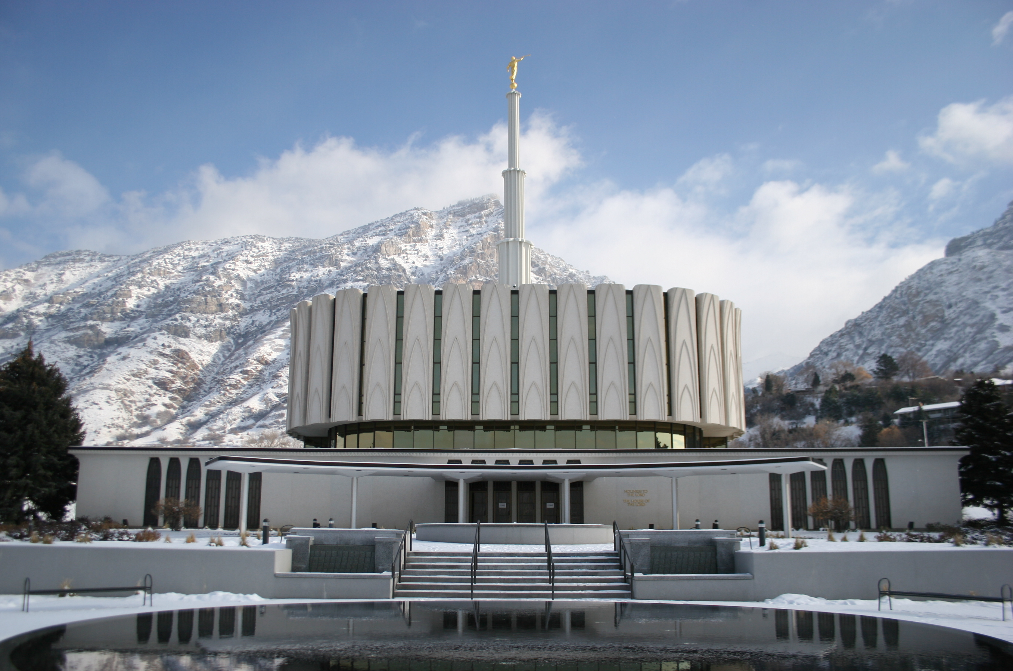 The Provo Utah Temple of The Church of Jesus Christ of Latter-day Saints at Provo, Utah.